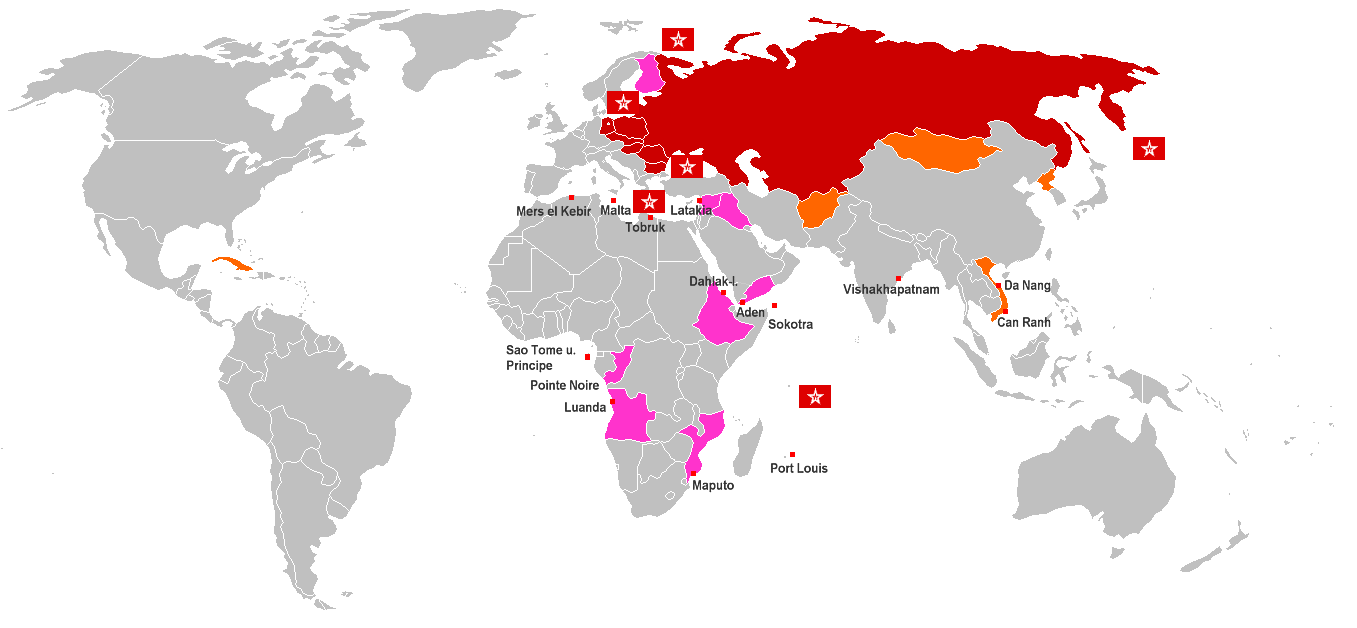 World Map of Soviet Navy Bases and anchor rights (red cubes with name). Red countries are Warsaw Pact member states, Orange countries are States with special treaty of mutual assistance and friendship with the Soviet Union, Pink countries are States with special treaty of mutual assistance and friendship since 1970, Flags are Fleets of the Soviet Navy